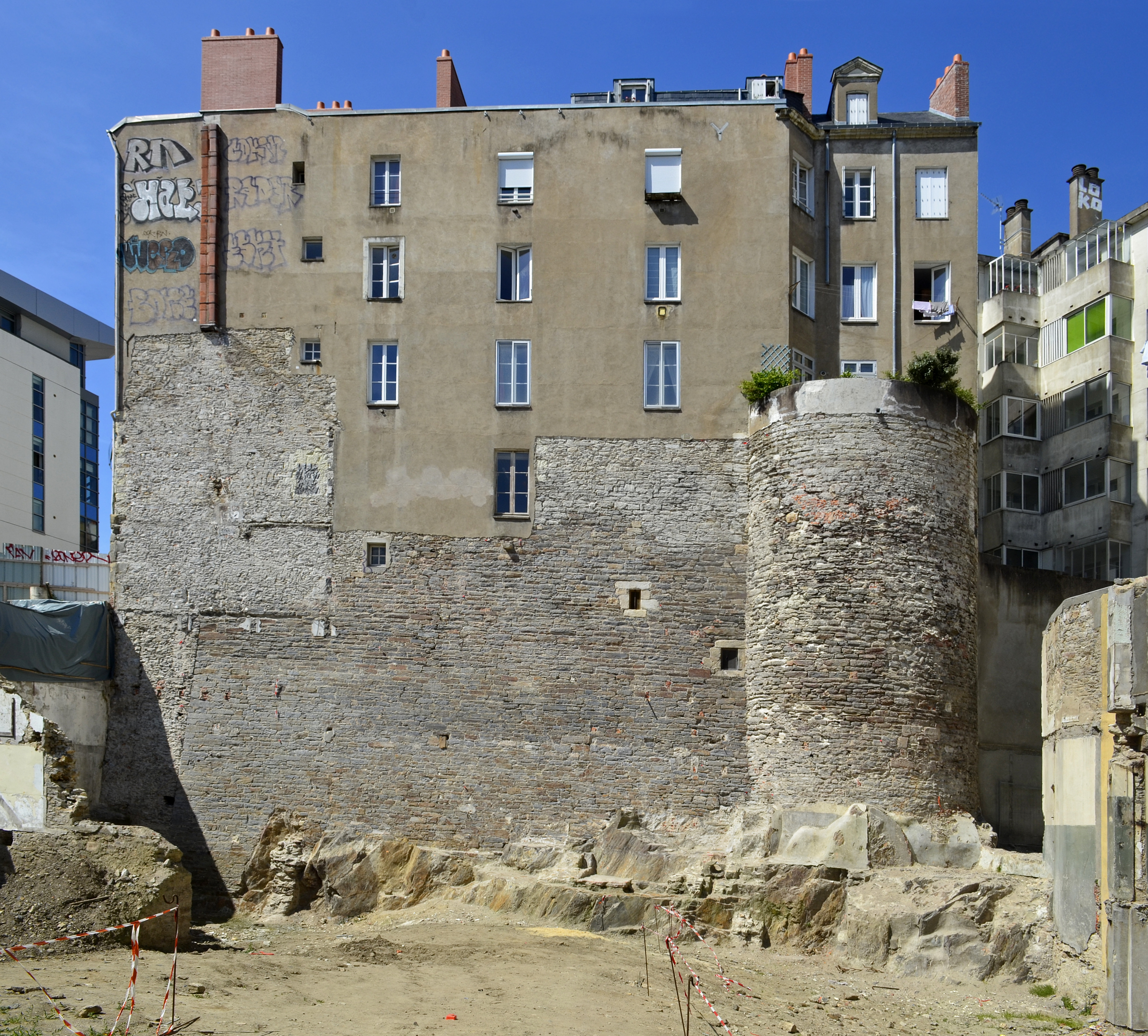 Remnants (ramparts and tower) of an old fortification (15th century) in Nantes, France